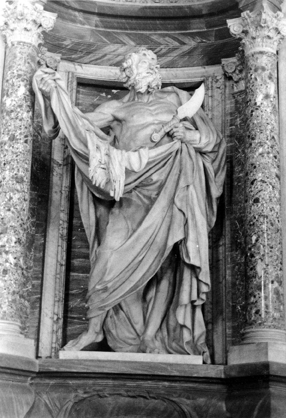 Apostle Bartholomew (Rome, San Giovanni in Laterano). Sculptor: Pierre Le Gros the Younger, c. 1703-1712.